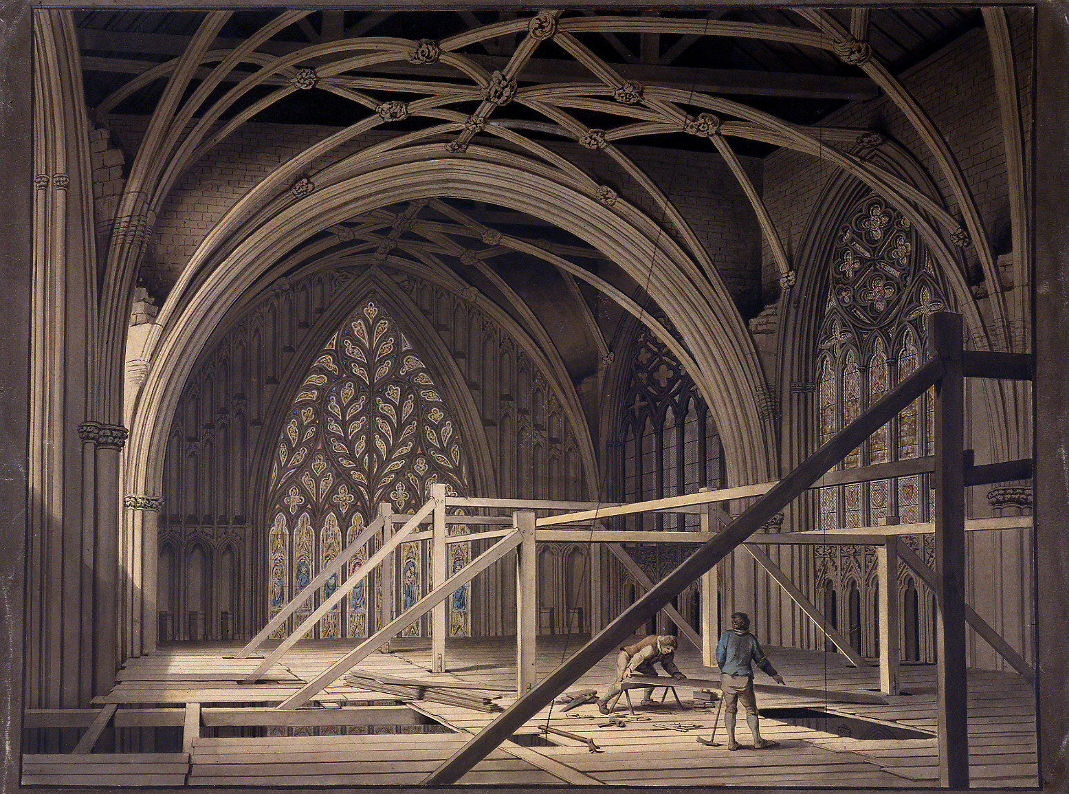 Scaffolding during construction at the West End of York Minster